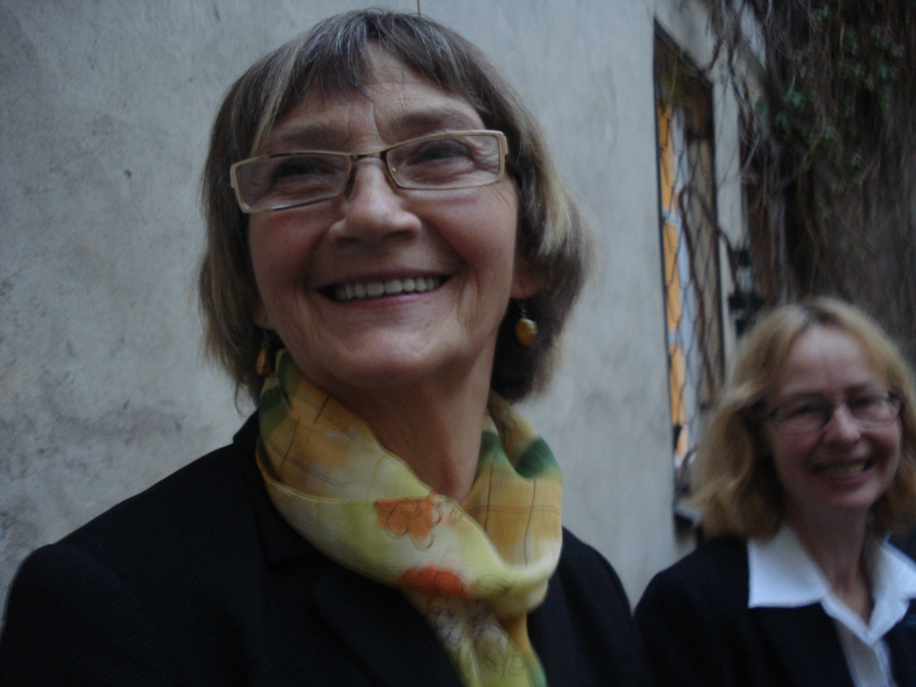 Tamara Janova, sculptor